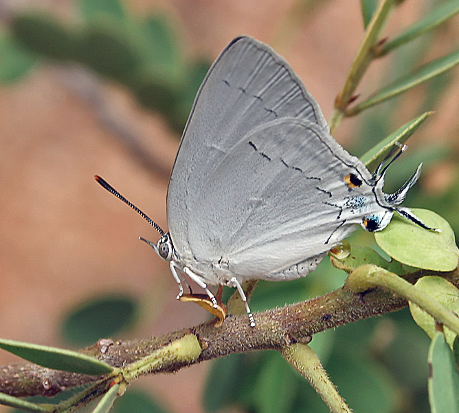 Peacock Royal Tajuria cippus at Chilkur near Hyderabad , India.